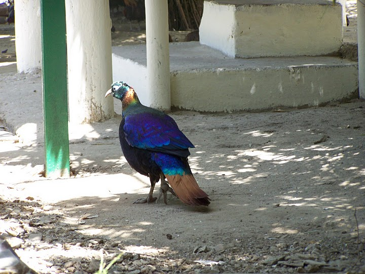 This is Hybird of Monal, which is state Bird of the state of Himachal Pradesh in India. The picture is taje and State Birds' Park in Himachal Pradesh at the state capital, Shimla.